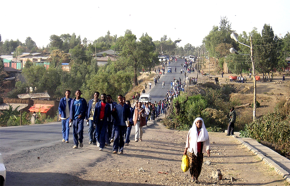 Students on their way to the University in Shashemene, 2008